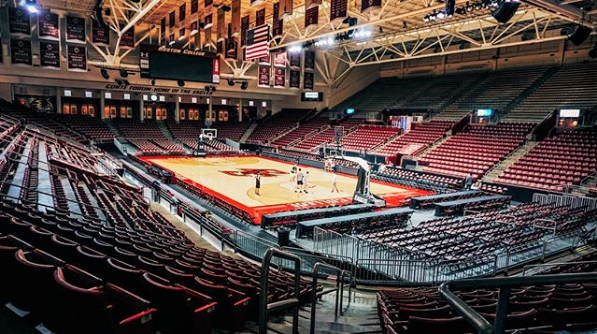 Silvio O. Conte Forum on the campus of Boston College.